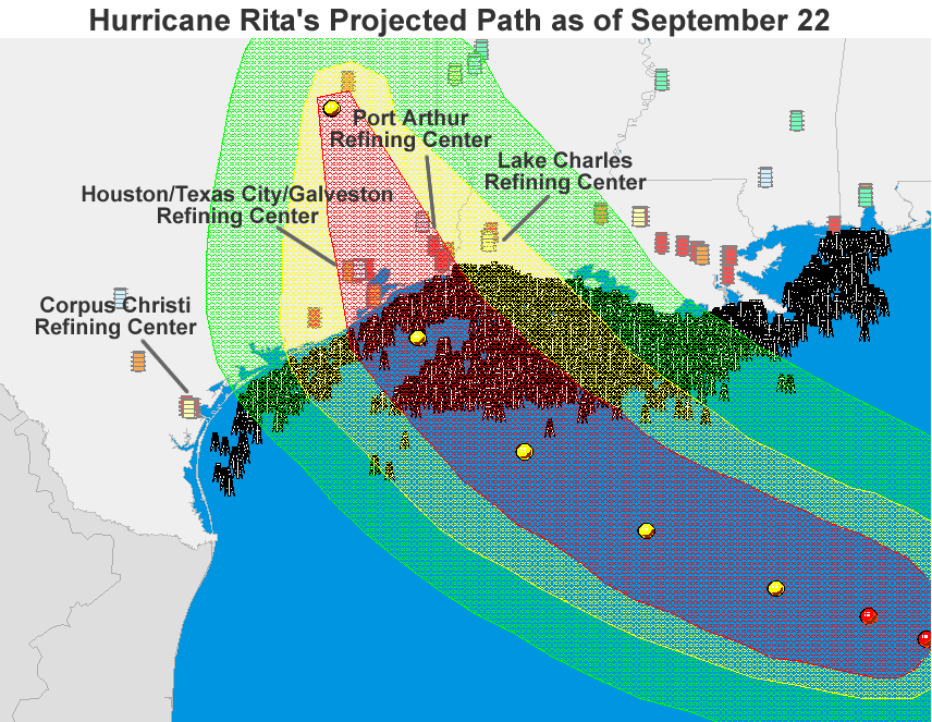 Image from the Department of Energy, highlighting Rita's projected path and the site of offshore oil platforms and refineries in the Texas and Louisiana area.